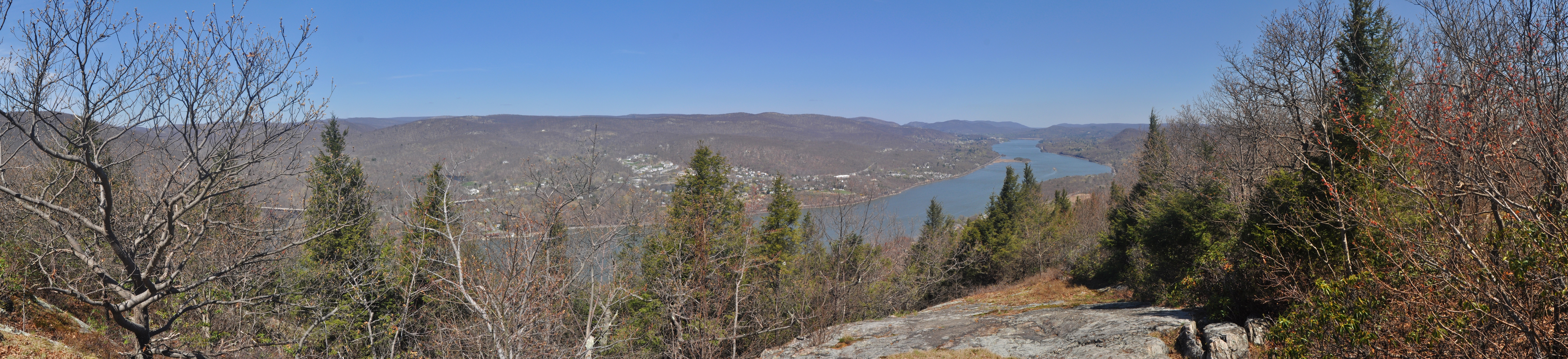 Panorama of the Hudson River looking north from a point on Anthony's Nose (Westchester), at a lookout a couple hundred yards north of the more popular destination (Anthony's Nose proper).